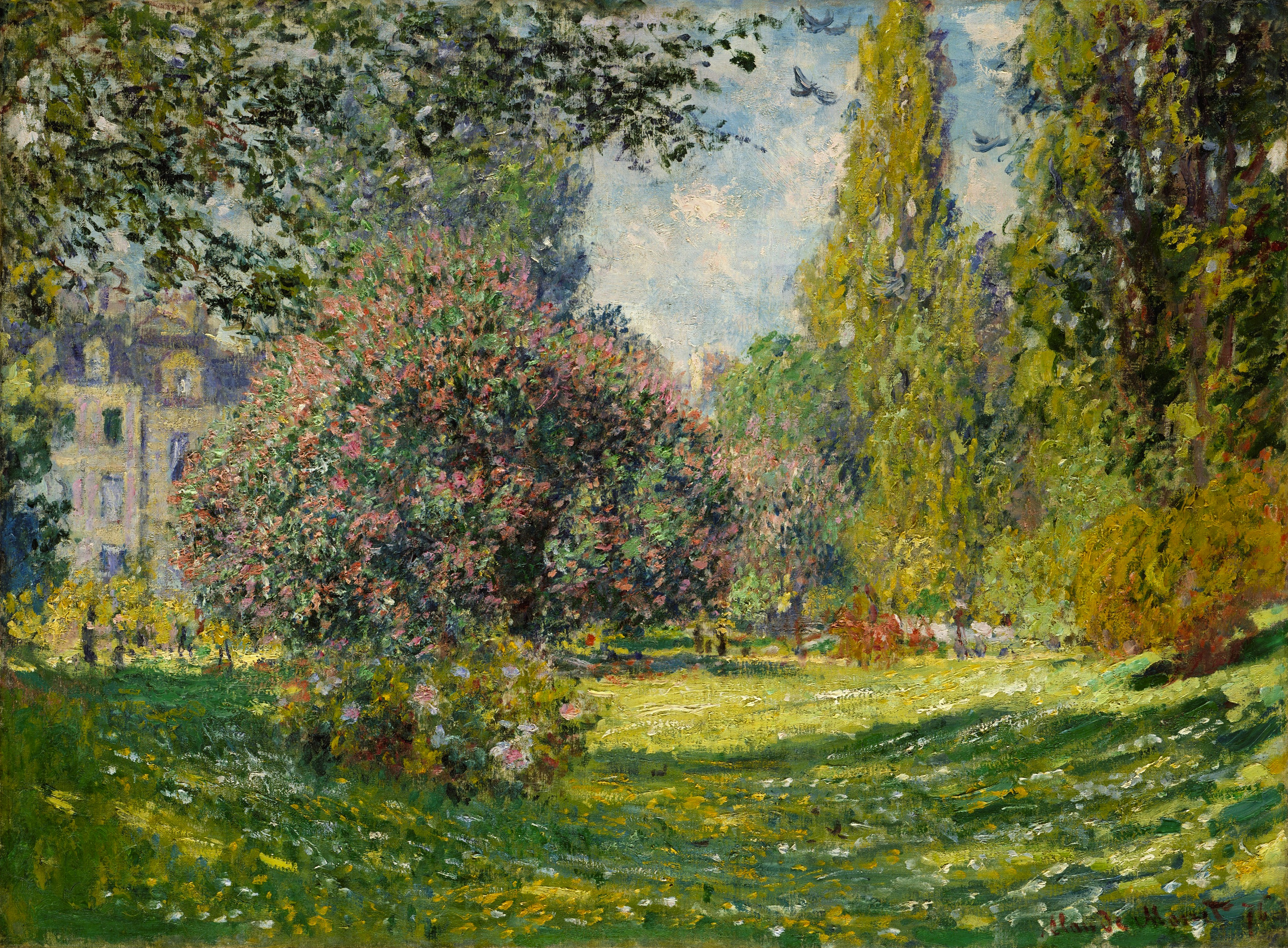 This is one of three views of the Parc Monceau in Paris that Monet painted in the spring of 1876. Situated on the boulevard de Courcelles and surrounded by fashionable town houses, the park was planned in the late eighteenth century in the form of an English garden for Philippe d'Orléans. For this picture, which was shown in the 1877 Impressionist exhibition, Monet positioned his easel so that the composition would be framed by the vegetation at the sides and the houses in the background. He also painted two views of the park in 1878, both looking toward the buildings visible at the left in this painting; one of them is in the Museum's collection (59.142).